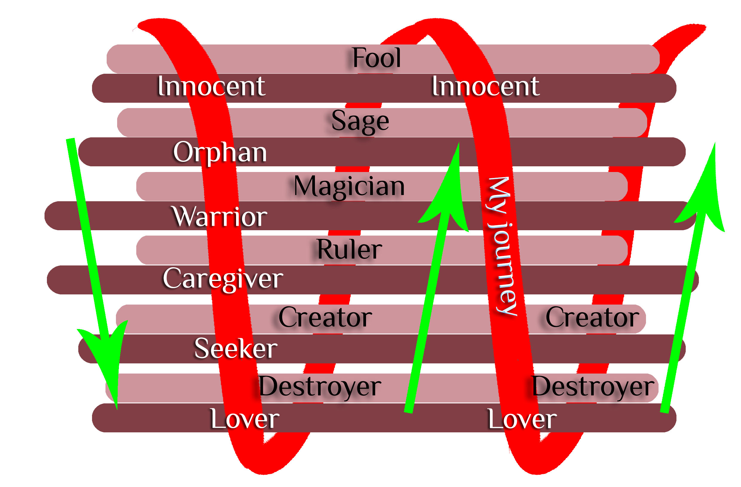 Hero's journey accorging to Pearson C., Marr H. What story are you living? A workbook and guide to interpreting results from the PMAI instrument. — 1st ed. — Гейнсвилл: Center for Applications of Psychological Type, 2007. — 163 p. — ISBN 978-0-935652-78-9. — P. 17.